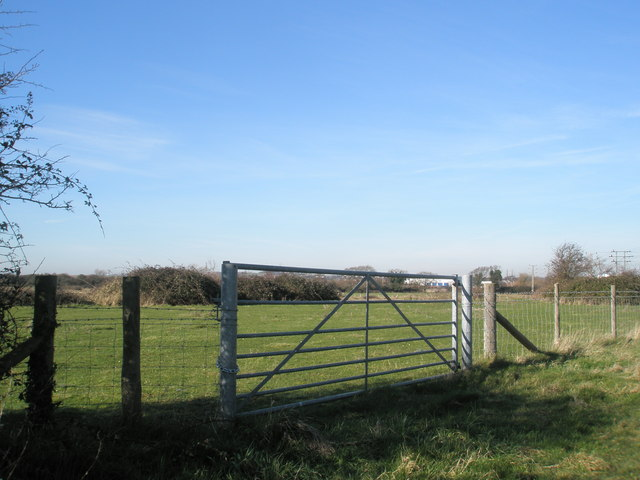 Gate entrance near Mill Lane Looking westwards towards Broadmarsh.